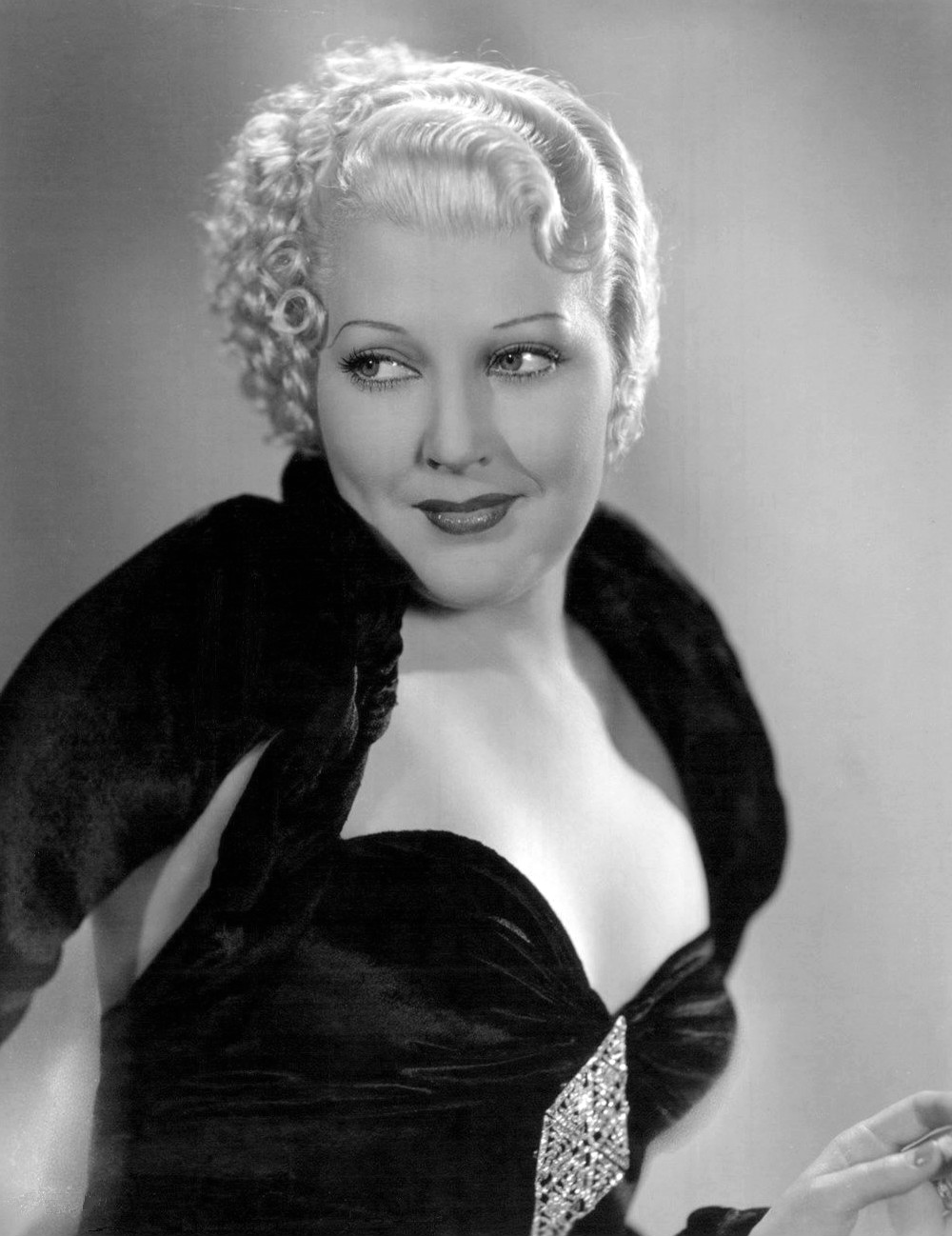 Photo of actress Thelma Todd.